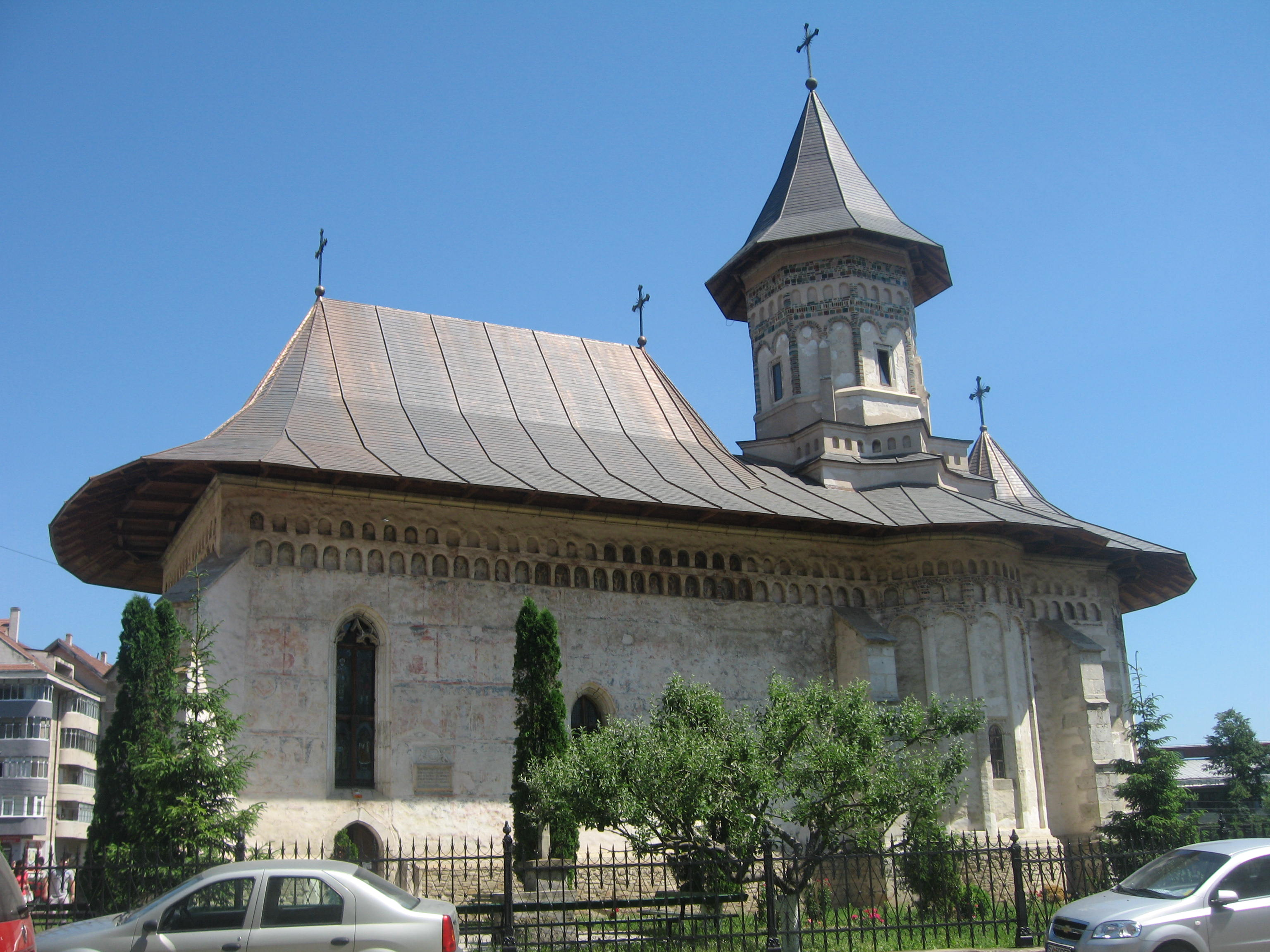 St. Demetrius Church in Suceava.